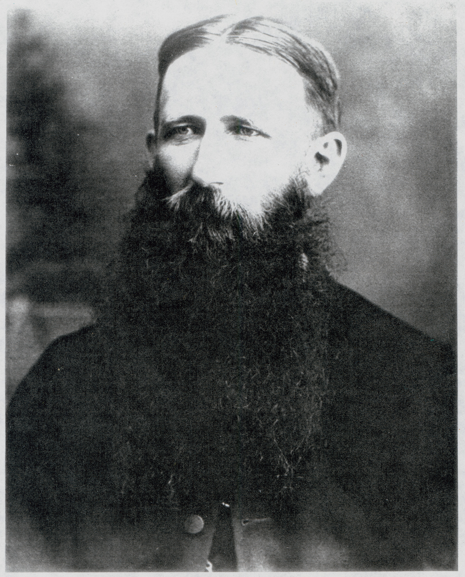 Photograph of Rev. Edward Francis Wilson